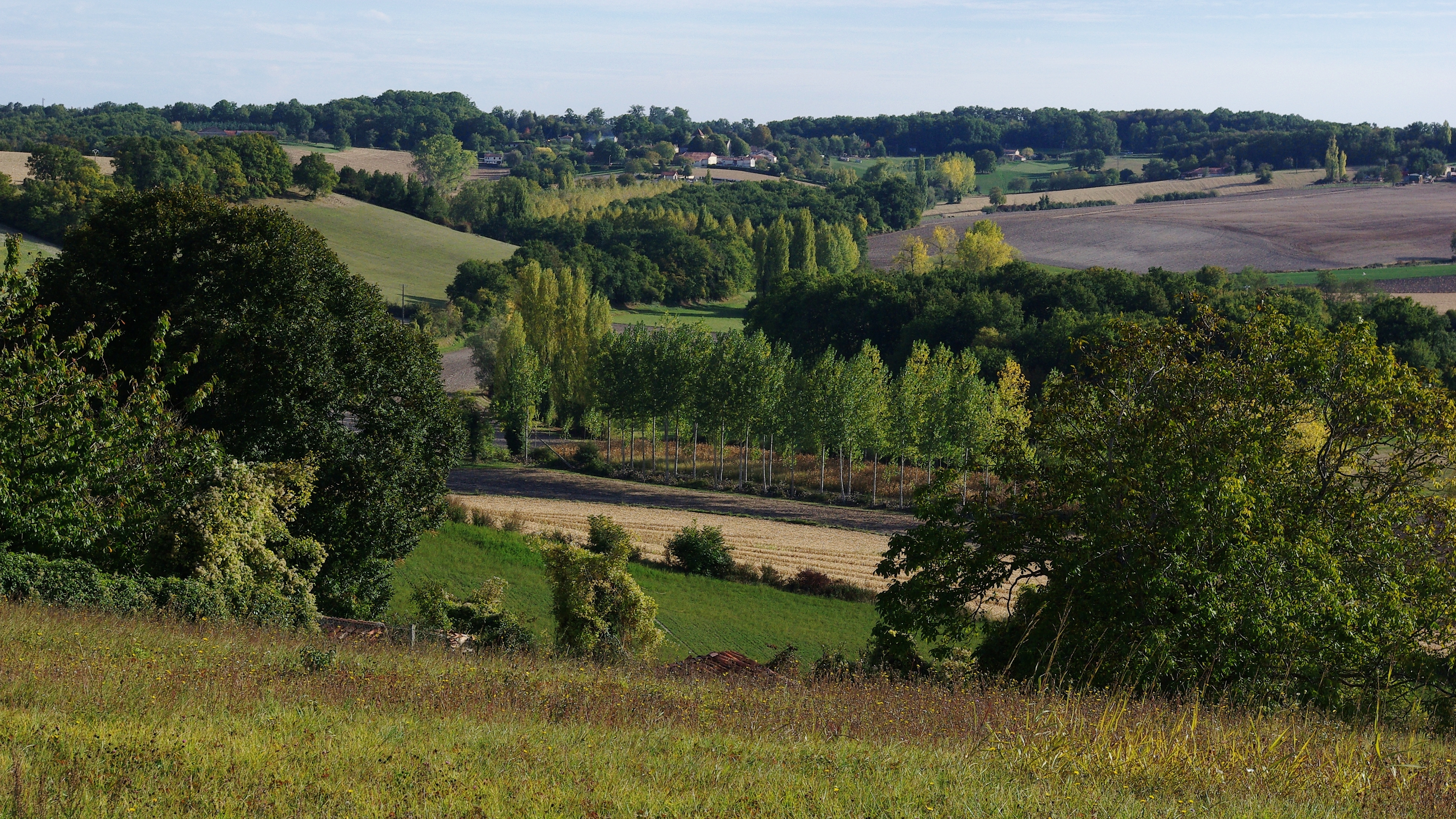 Hills near Montmoreau, southern part of Charente, France.